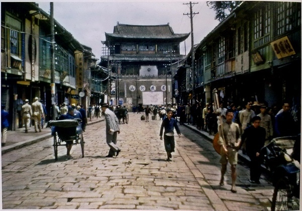 Kunming city gate